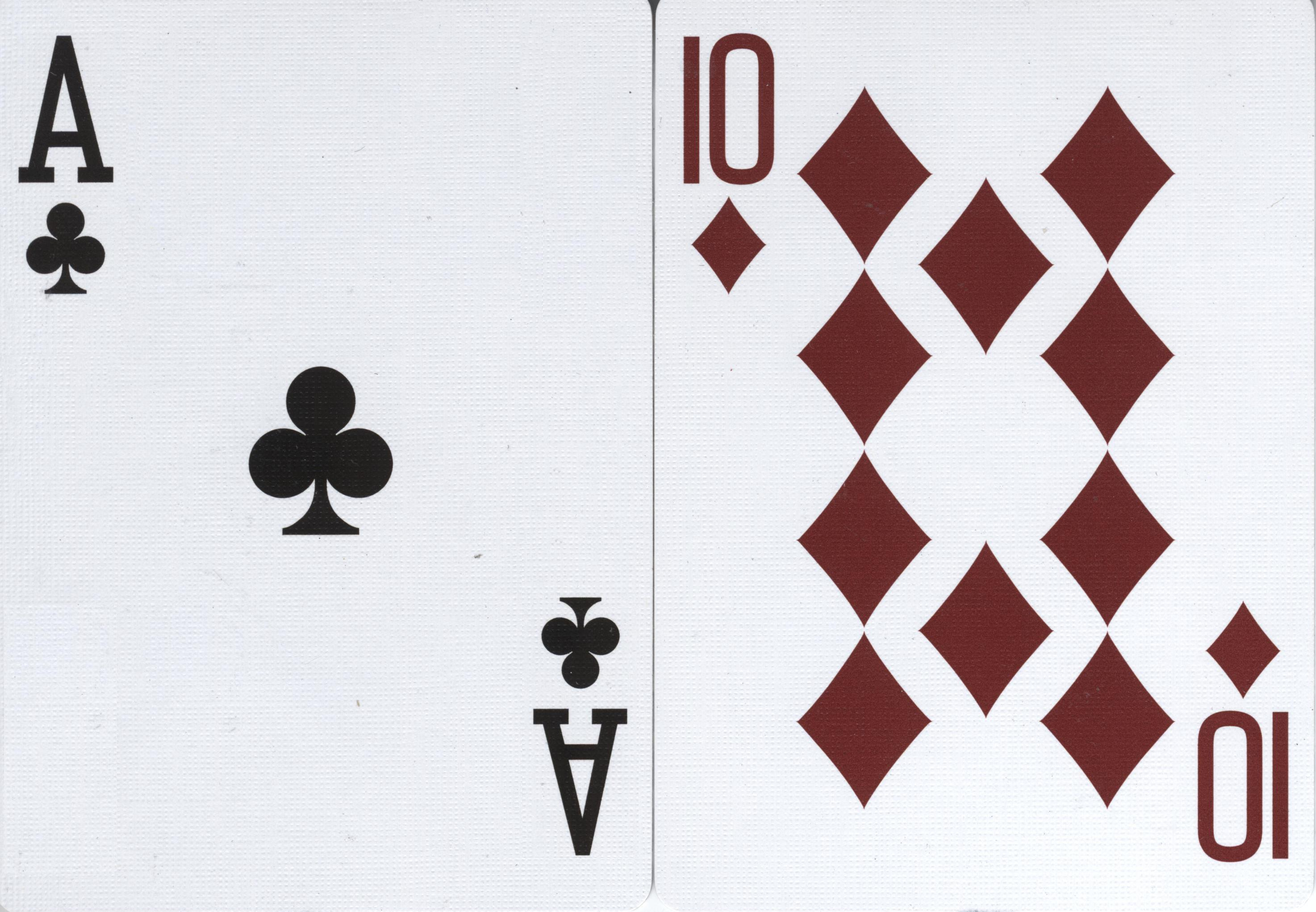 A Blackjack hand, Ace of clubs and 10 of diamonds.